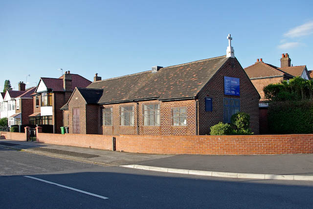 St Barnabas' Church, Chorlton-cum-hardy St Barnabas’ Church, was built in the 1950’s and is part of the Parish of St Clement (CofE). The church provides a worship and community facility for the people of the estates off Hardy Lane and Darley Avenue. The Church is located at the corner of Hurstville Road and Hardy Lane.